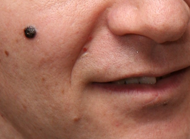 4mm thick nodular melanoma.